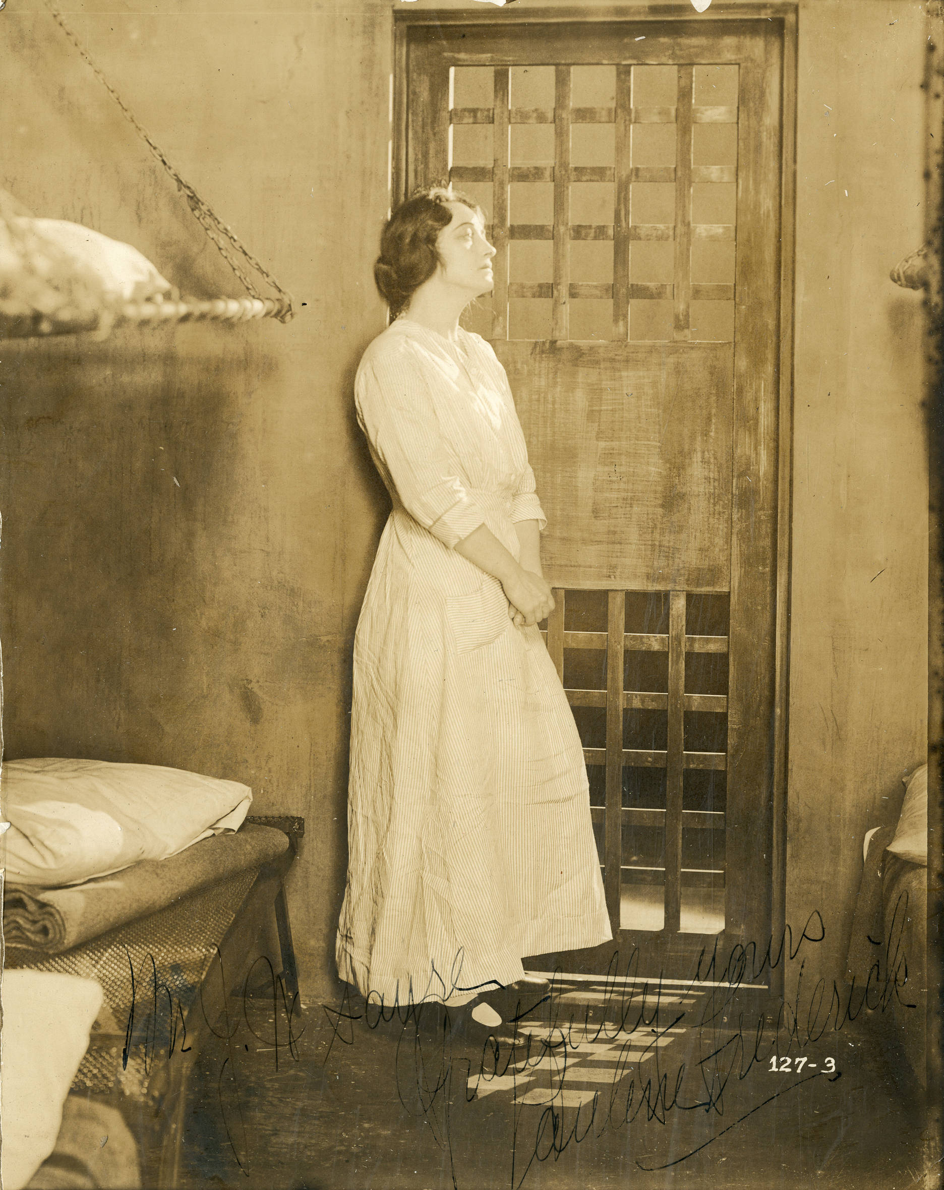 Pauline Frederick, silent film actress, from the American drama film Ashes of Embers (1916). Subjects: actresses